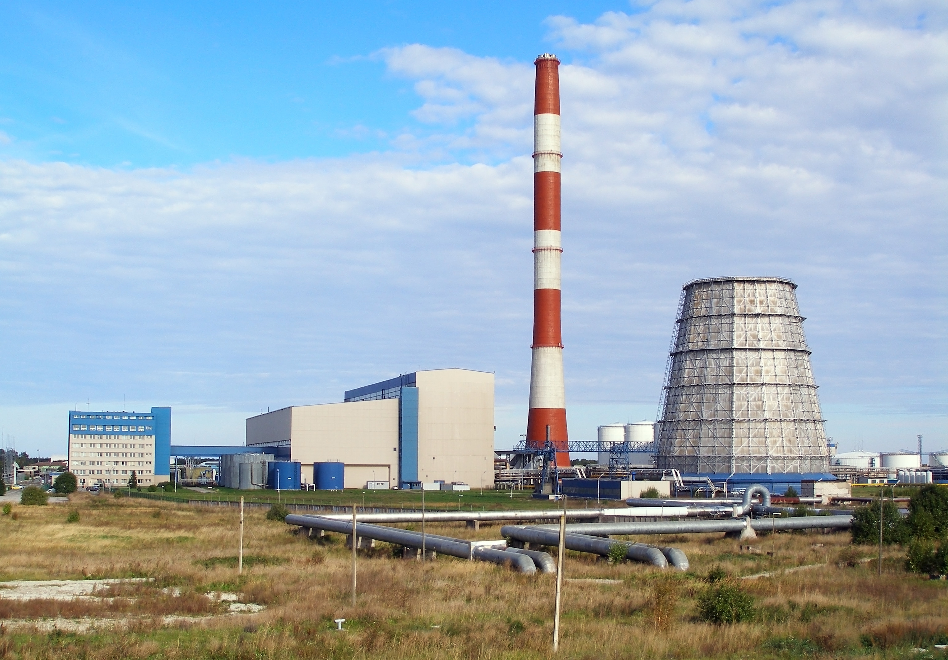 Iru Power Plant in Maardu, near Tallinn, Estonia.